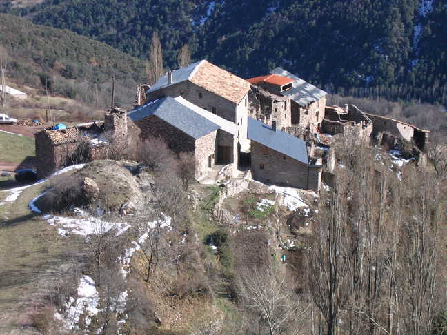 Mencui / Catalunya from northern direction